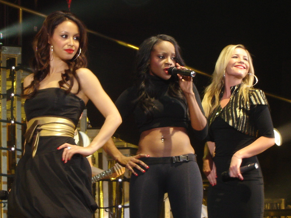 Sugababes at the Hammersmith Apollo